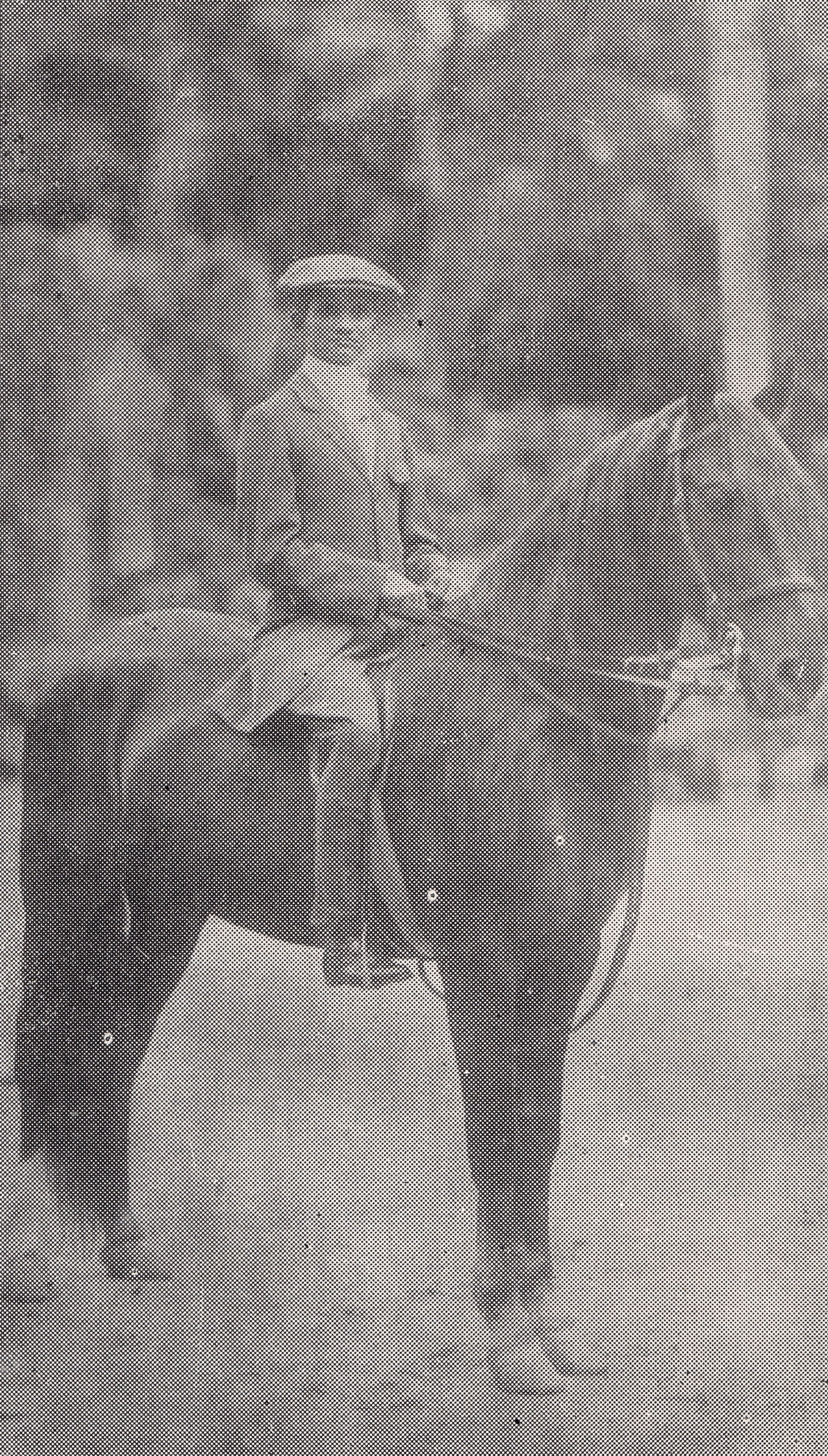 Portrait of the Ceylonese National Hero Edward Henry Pedris.